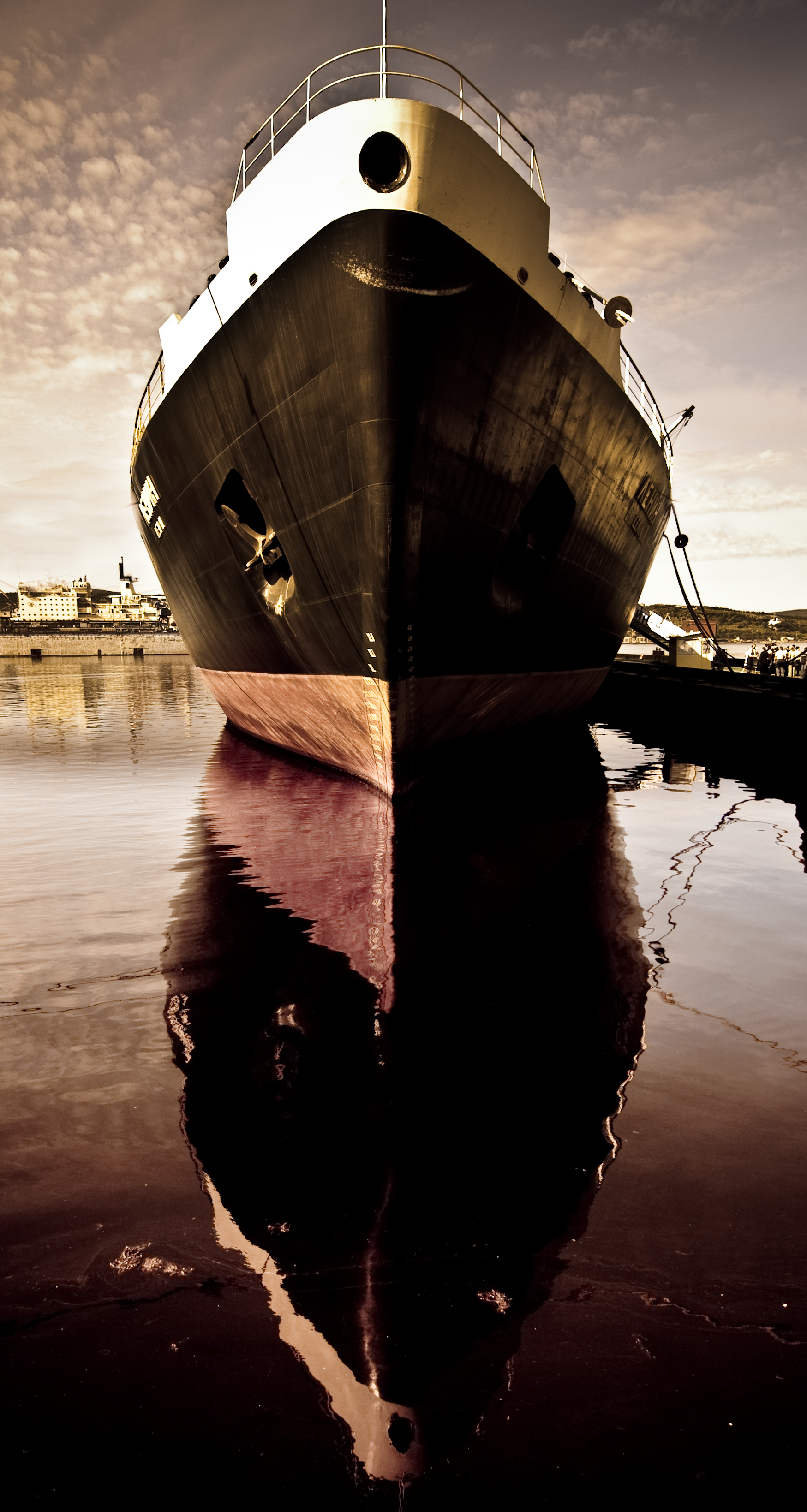 I'd have gone closer to the hood to get the 30's ocean liner look but the pier ended here. With the reflection i think the ship got more personal look.